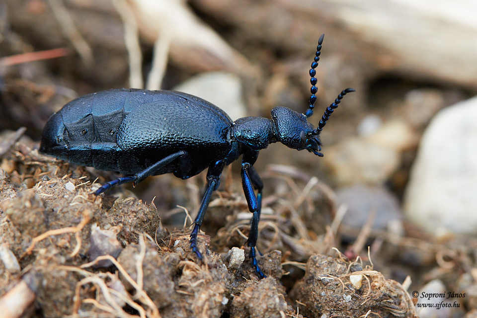 közönséges nünüke - Meloe proscarabaeus